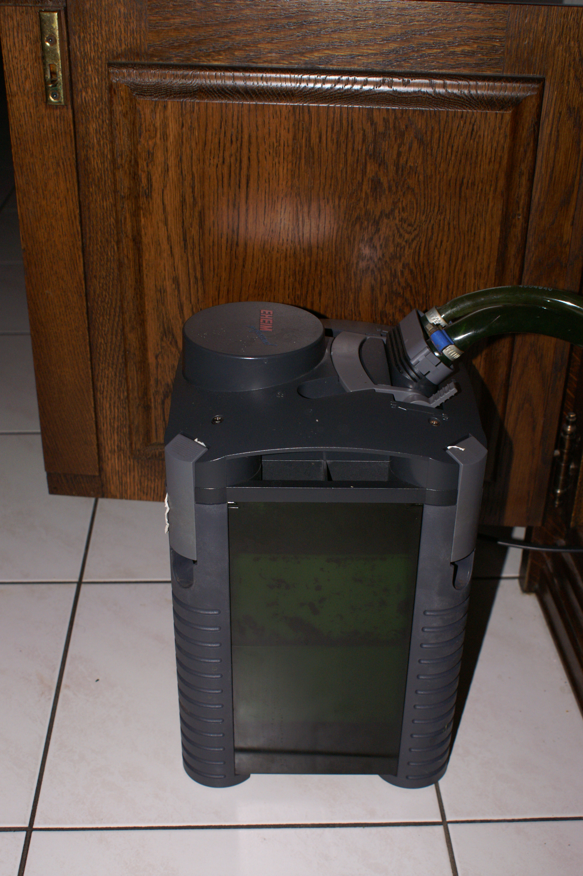 External aquarium filter, Eheim